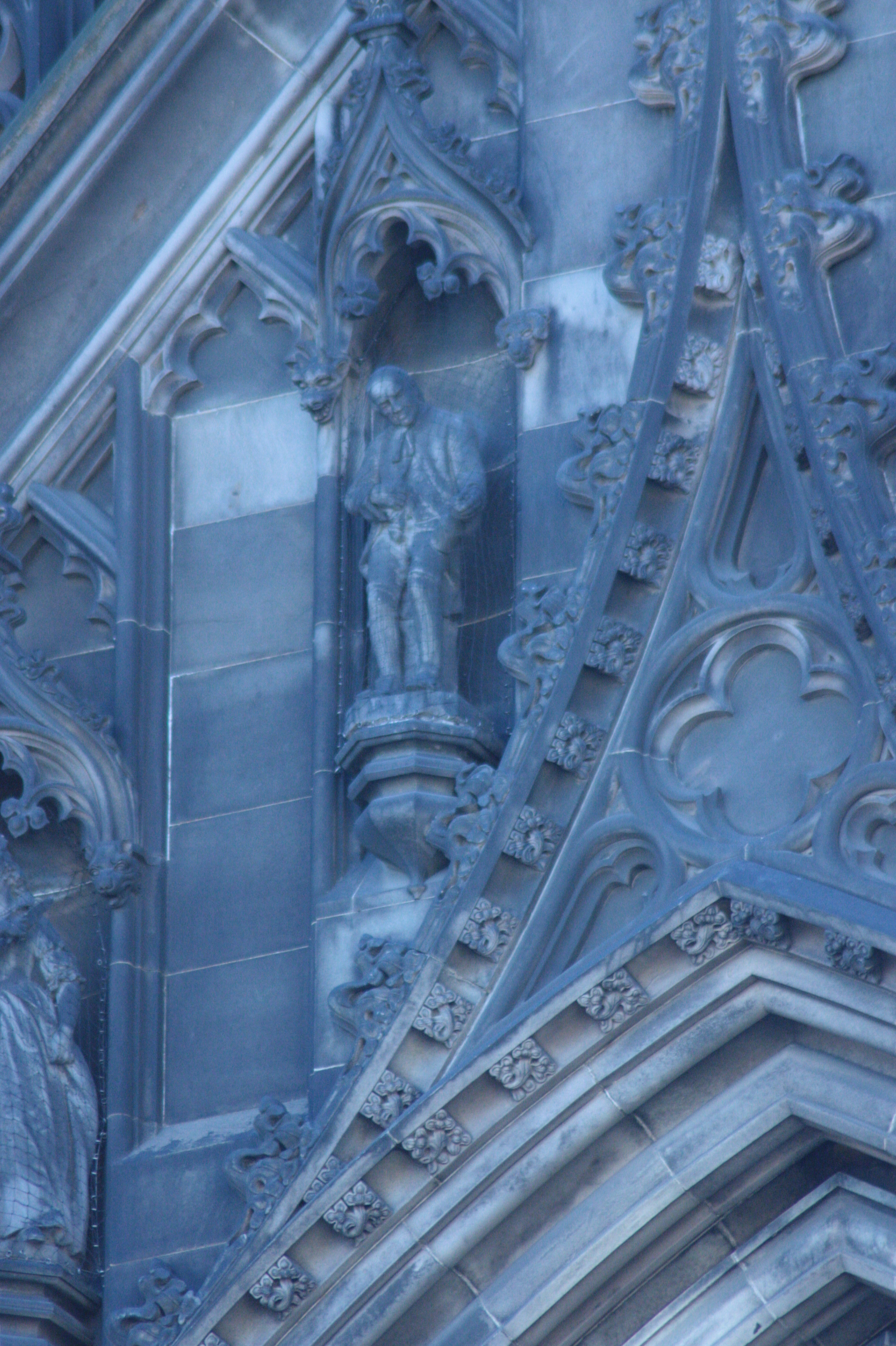 Caleb Balderstone on the north side of the Scott Monument